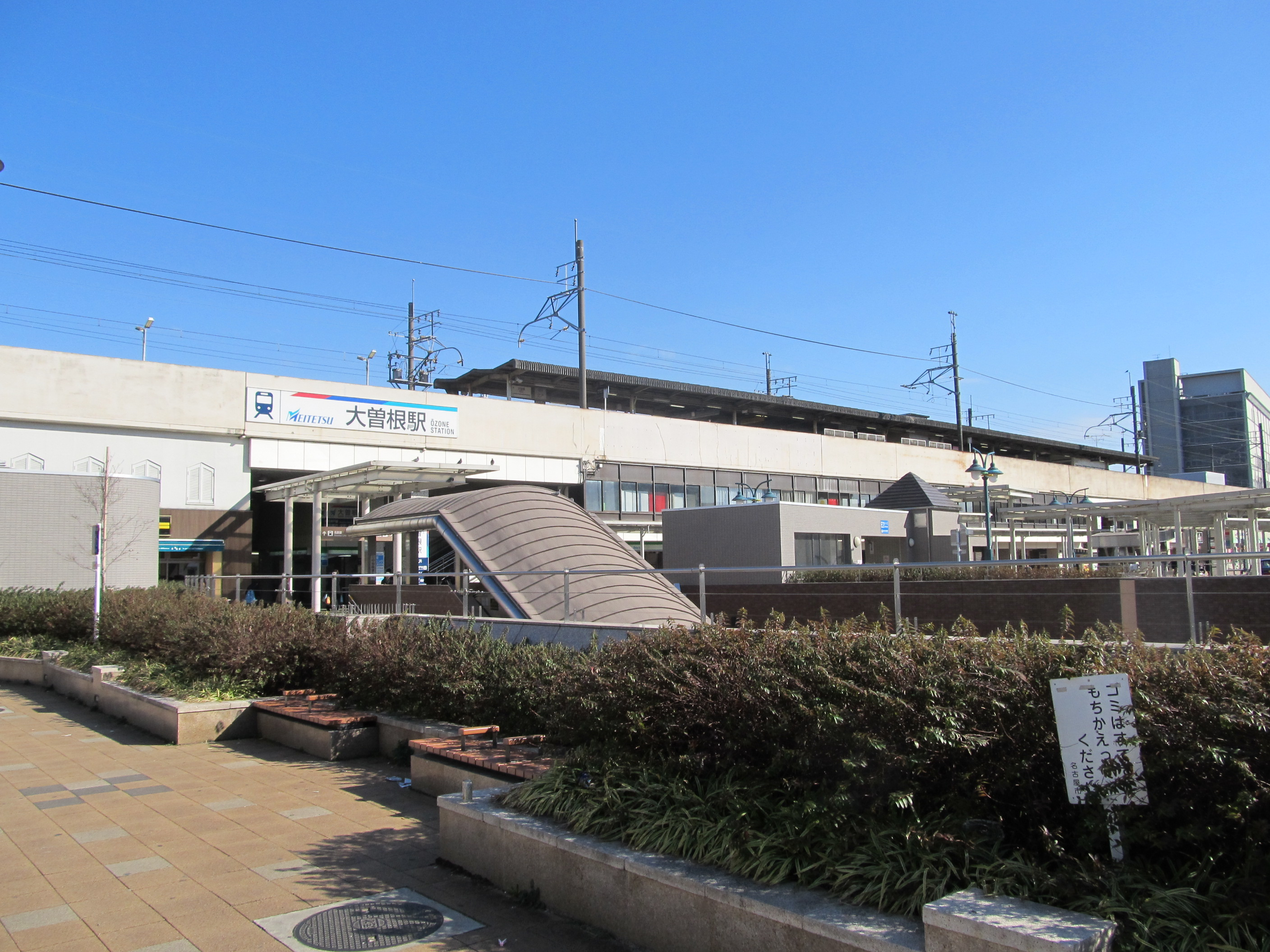 Nagoya Railroad Seto Line Ōzone Station Westplaza